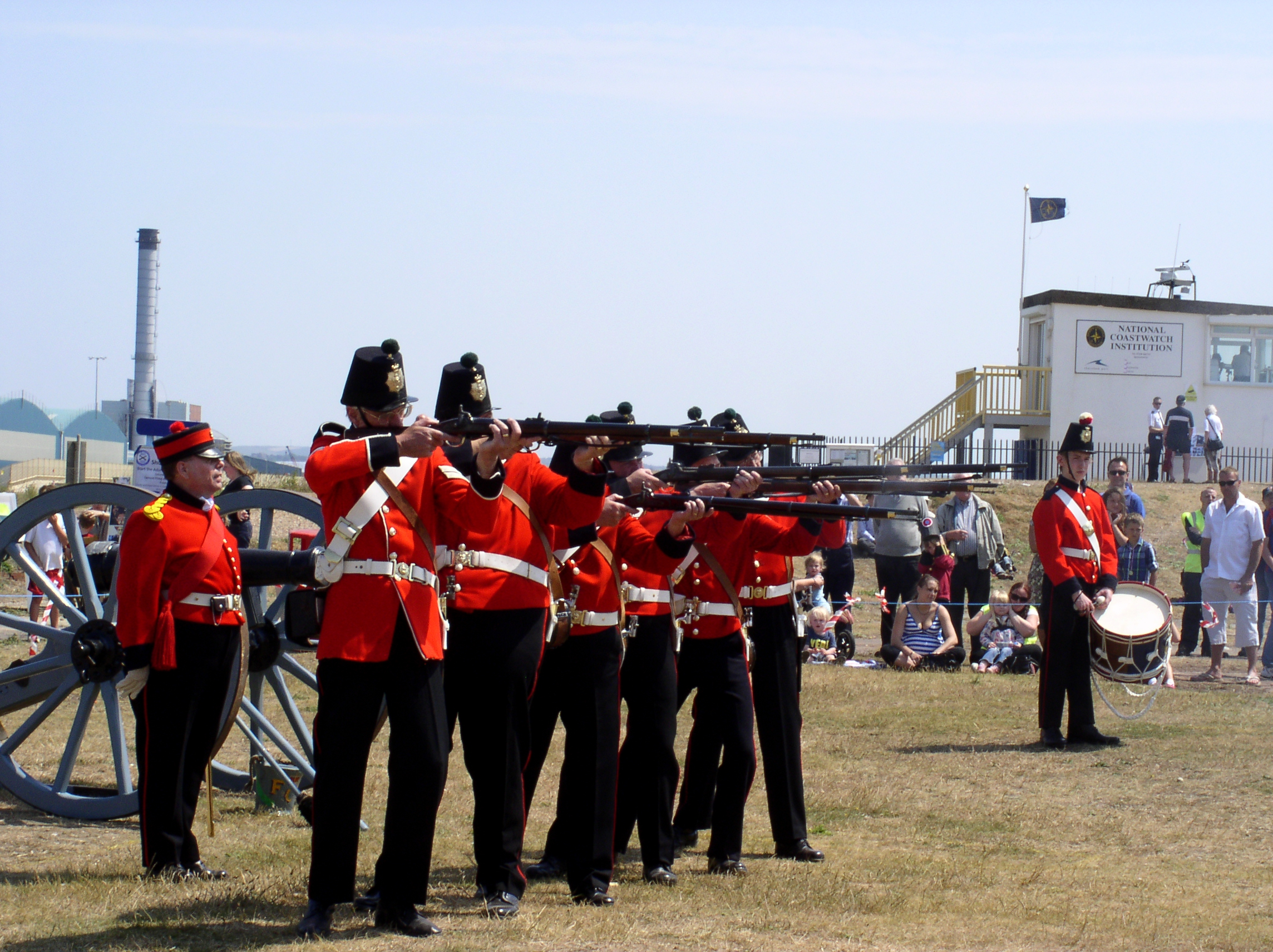 Shoreham Fort: Military re-enactment by the Fort Cumberland Guard 4 June 2011